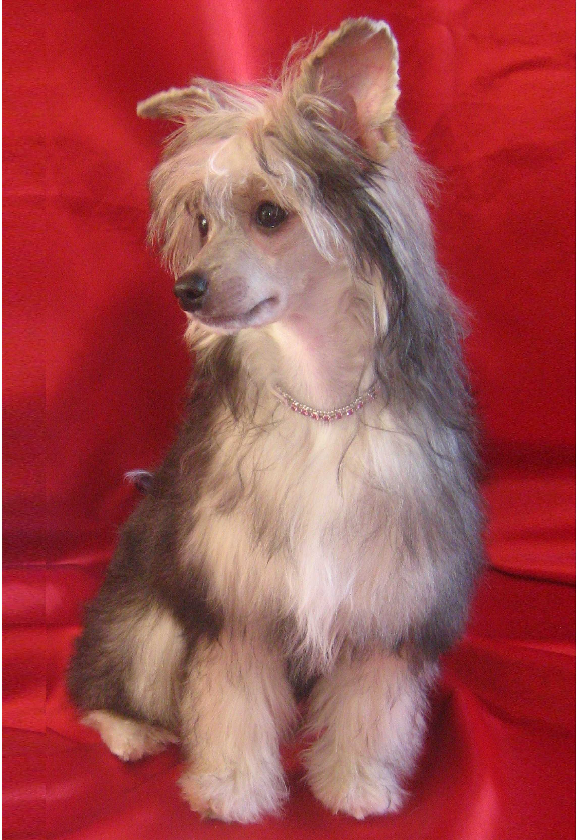 Chinese crested dog Ķīnas cekulainais suns